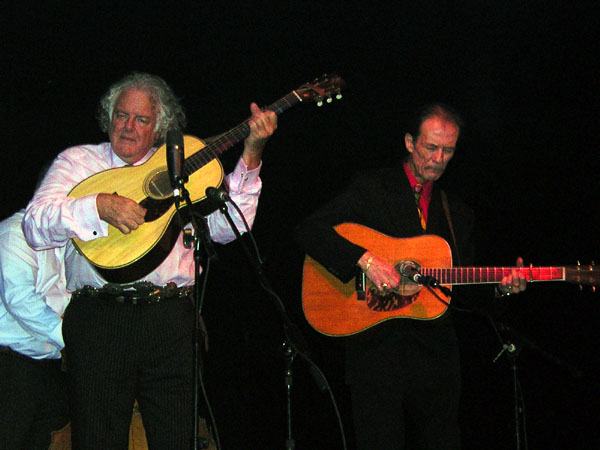 Picture of Peter Rowan (on the left) performing with Tony Rice at the Kent Stage in Kent, Ohio, on November 7, 2008.